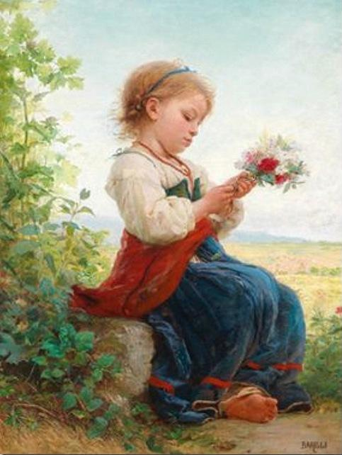 Young roman girl with a bunch of flowers, oil on canvas by Cecrope Barilli (97x72 cm). Private collection at Parma.